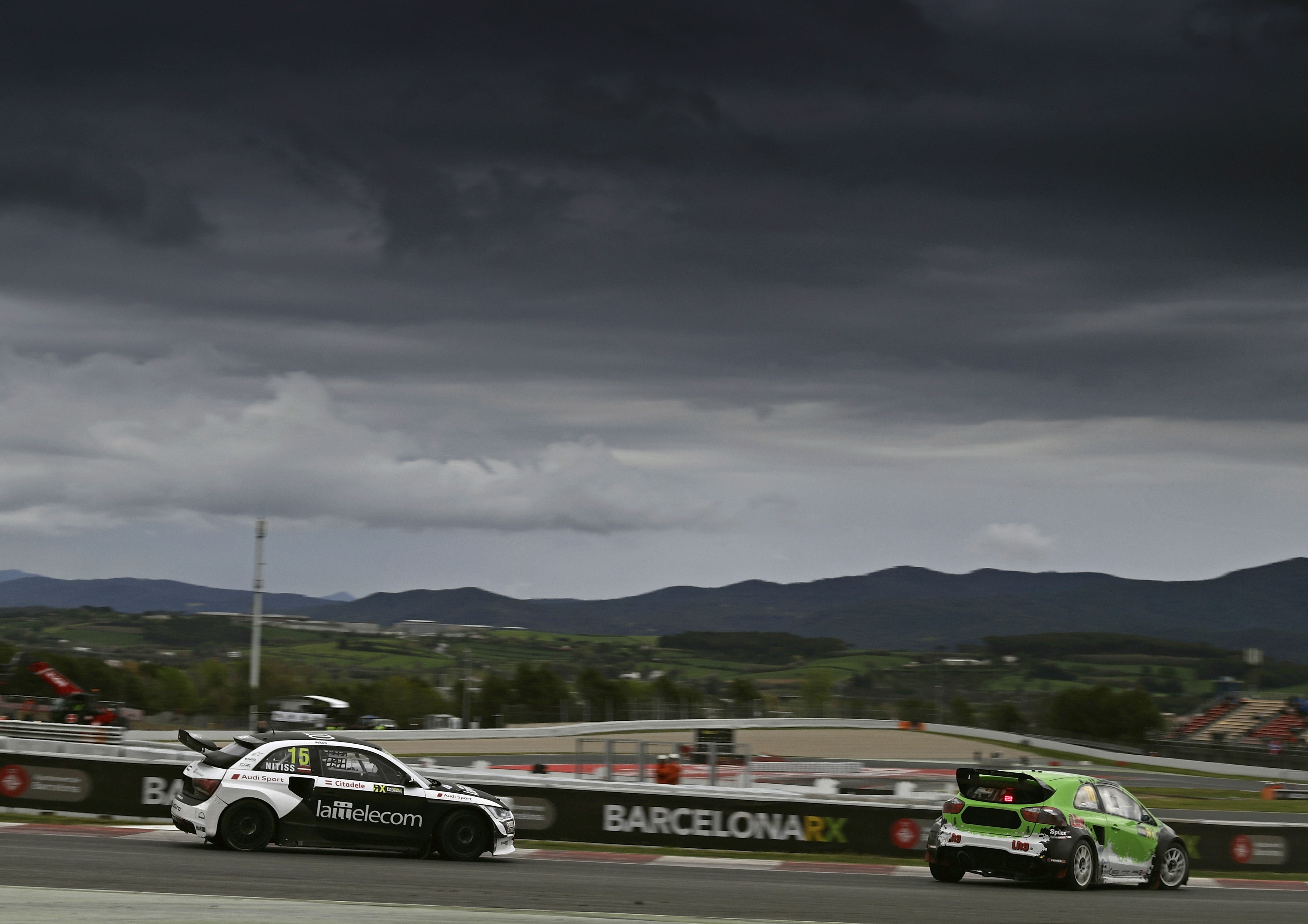 2017 FIA World Rallycross Championship // Round 01, Barcelona // Credit: EKS/Bodo Kraehling